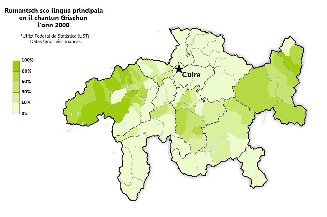 Percentage of rumansh speakers as main language in year 2000, according to Switzerdland Federal Statistics Office